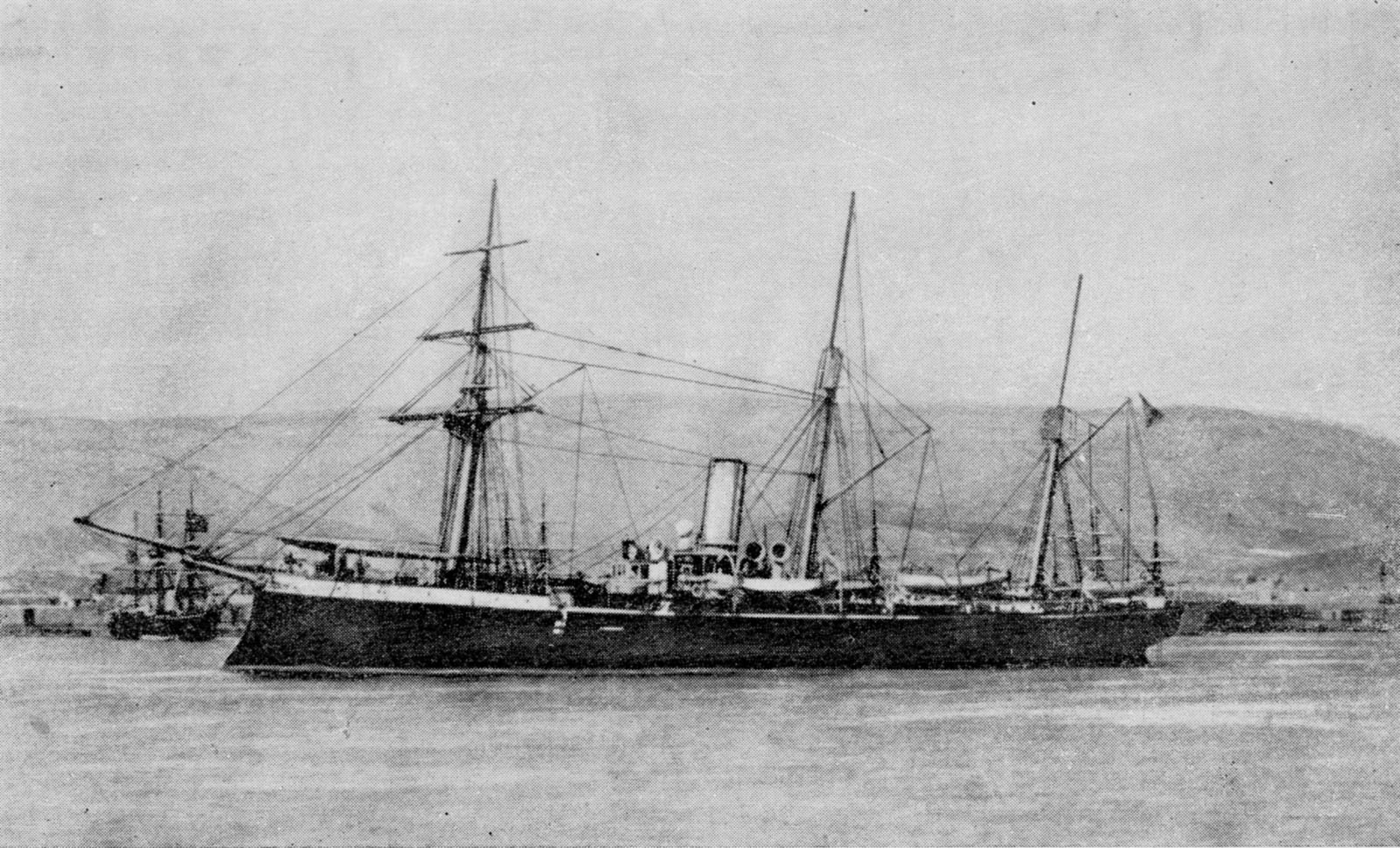 Imperial Russian gunboat Chernomorets.